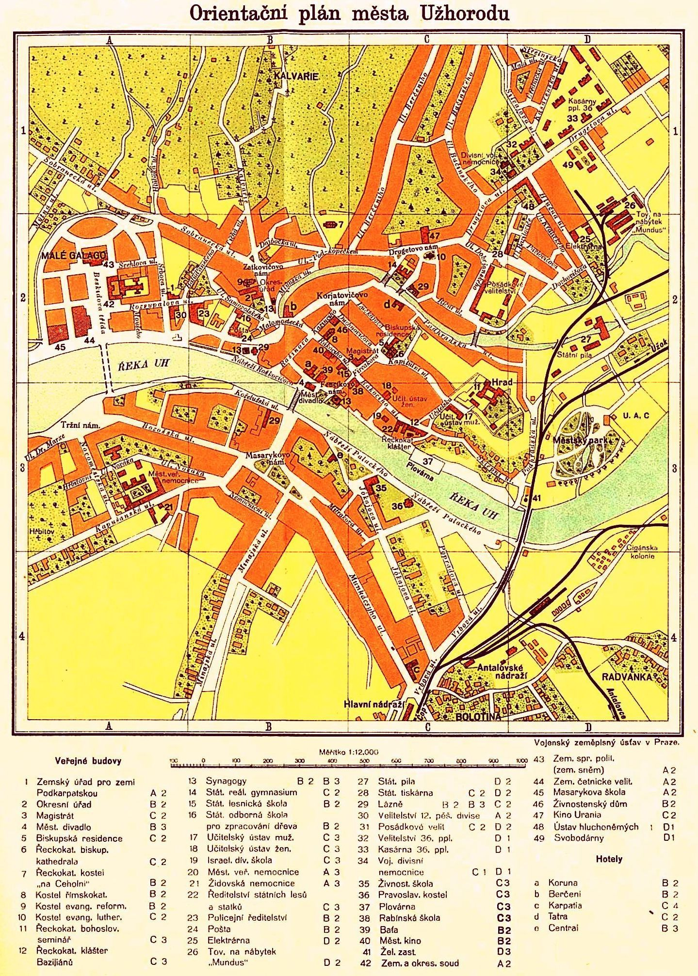 Basic map of Czechoslovak city Užhorod (now Uzhhorod in Ukraine) in 1933. The descriptions are in Czech.